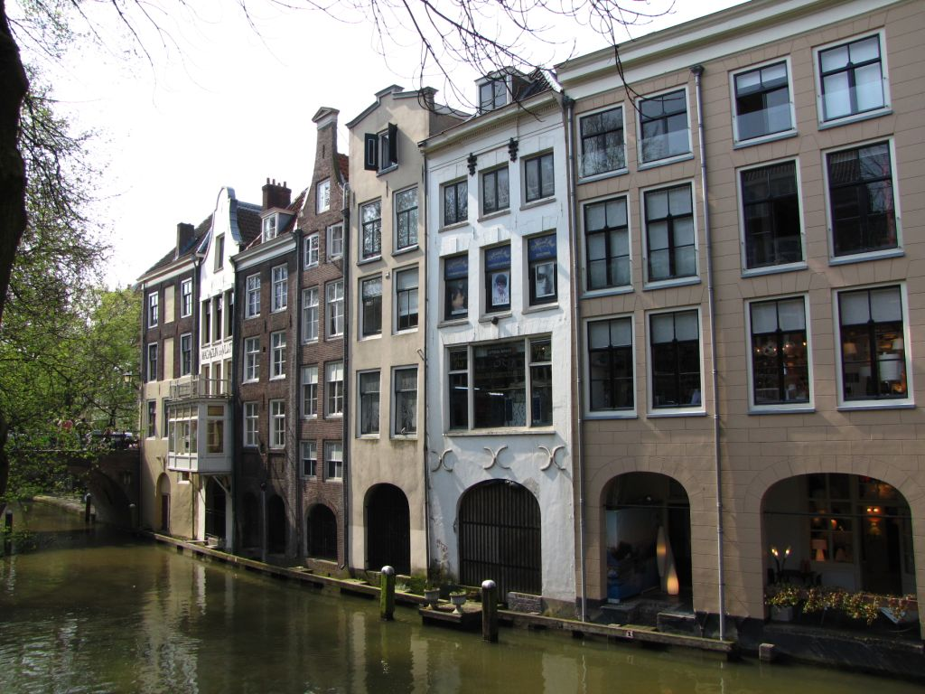 Oudegracht Utrecht